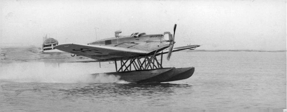 Ahrenbergs Atlantic Flight 1929.